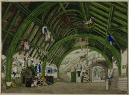 Léon Bakst Russian, 1868-1924 Set Design for the Boutique, 1918/24 Watercolor and gouache, over graphite, on off-white laid paper, laid down on gray board 458 x 625 mm Sidney A. Kent Fund, 1920.2527